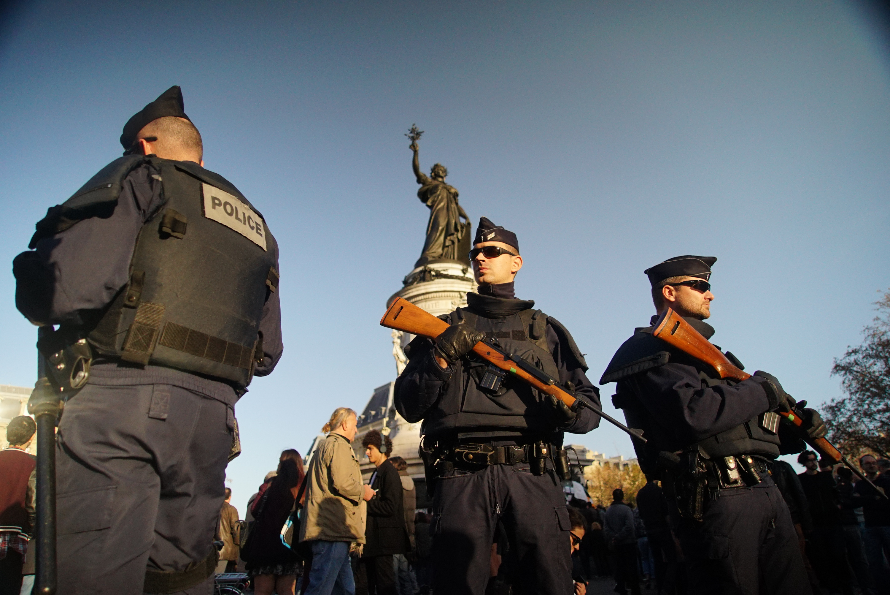 Western Europe, France, Paris, November 15, 2015.